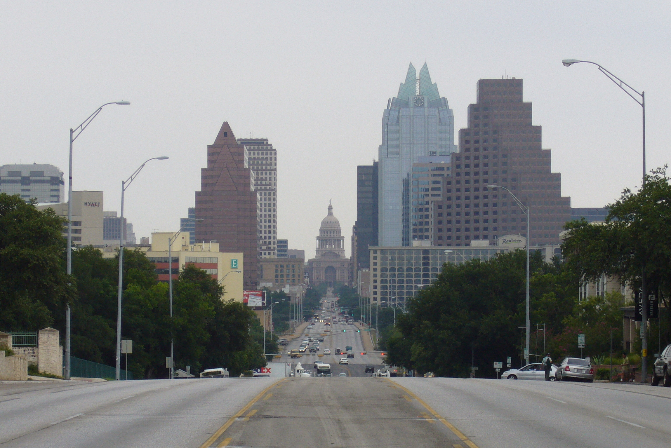 Downtown Austin from south of Town Lake on Congress Avenue.